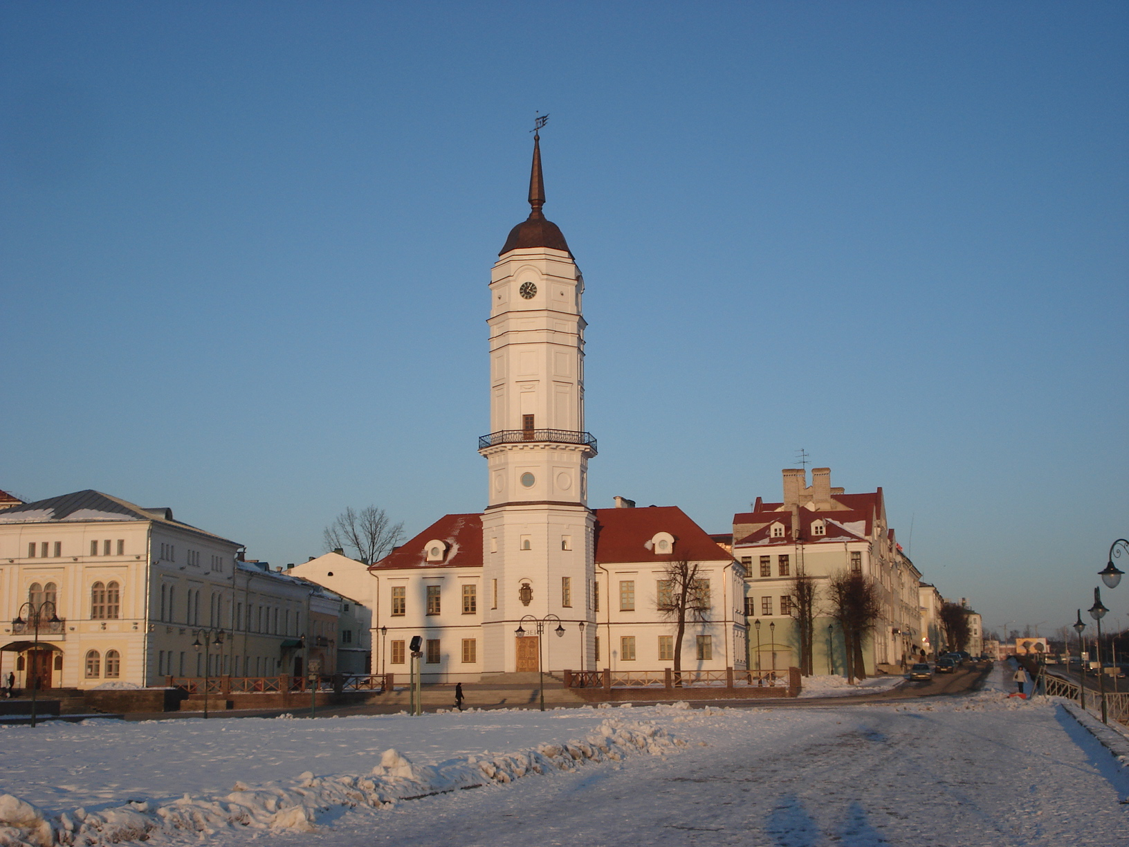 City Hall of Mаhiloŭ